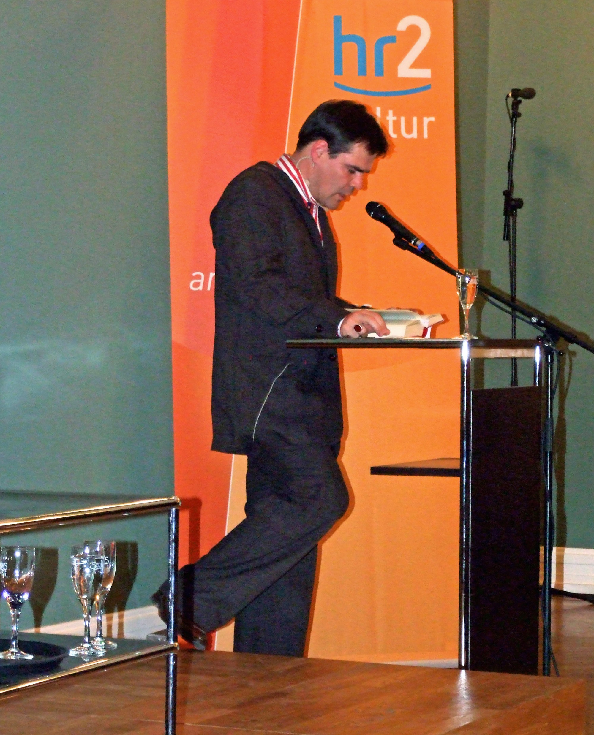 Uwe Tellkamp (German Book Prize shortlisted author 2008) reading a part of Der Turm (The Tower) at Frankfurt Literaturhaus